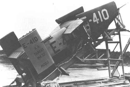 XSUM-N-2 "Grebe" missile, labeled as a target drone as disinformation, on a test-launching platform.